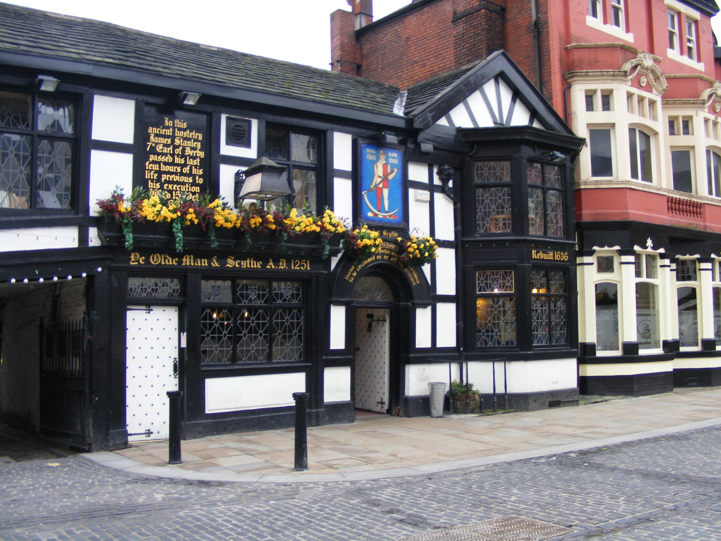 Bolton's oldest pub, The Man & Scythe on Churchgate dating from 1251.